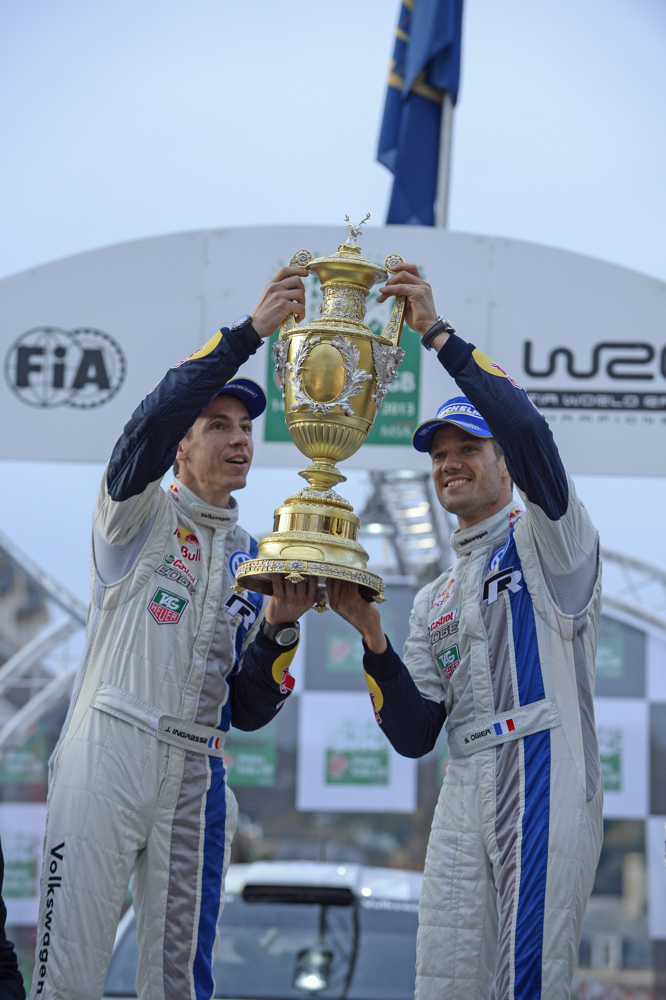 Sébastien Ogier (right) and co-driver Julien Ingrassia wins the 2013 Wales Rally GB, the last rally of the 2013 World Rally Championship.